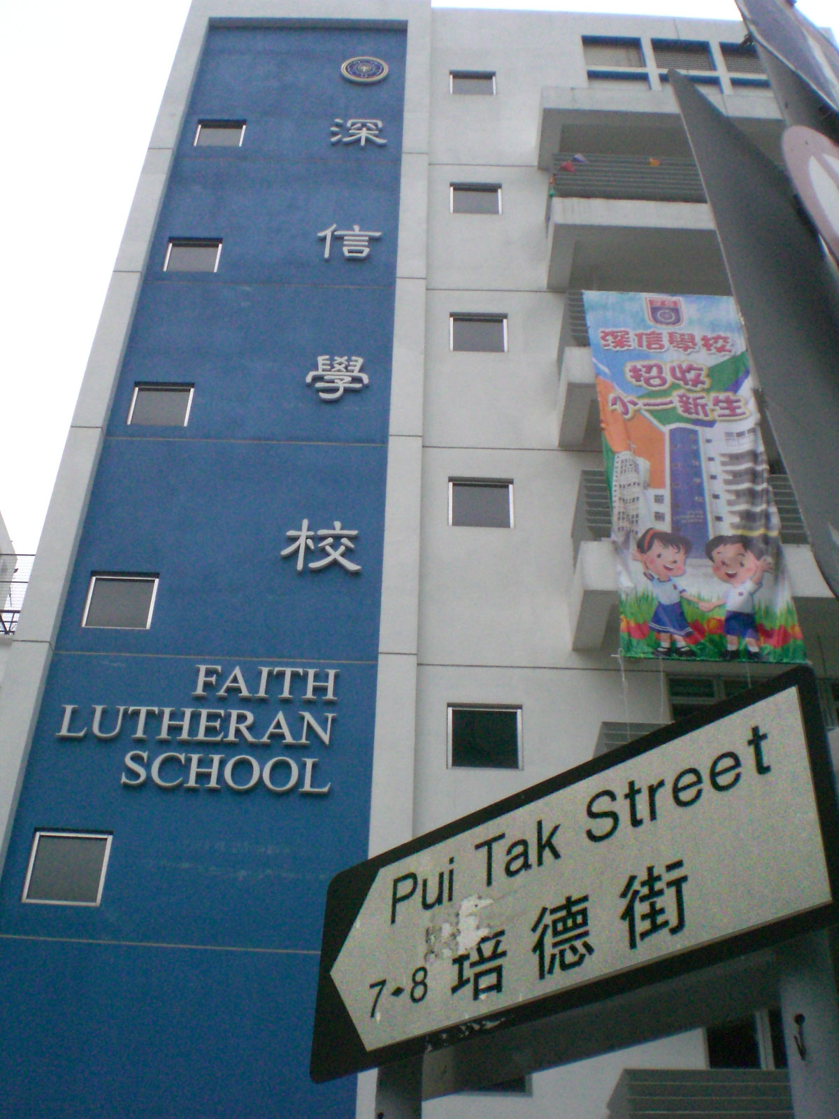 深水埗區石硤尾zh:培德街學校區 - 深信學校[1]